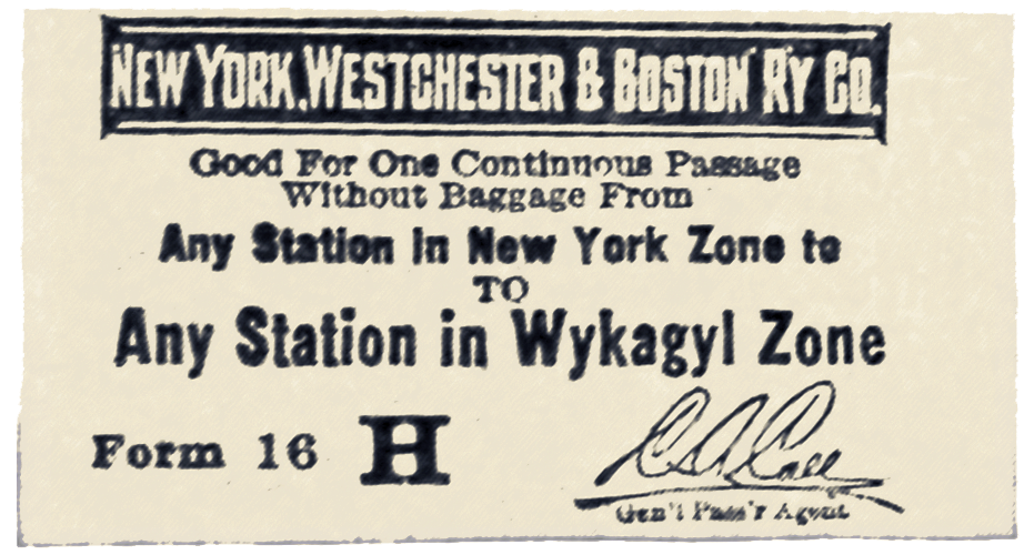 A ticket of the New York, Westchester and Boston Railway.